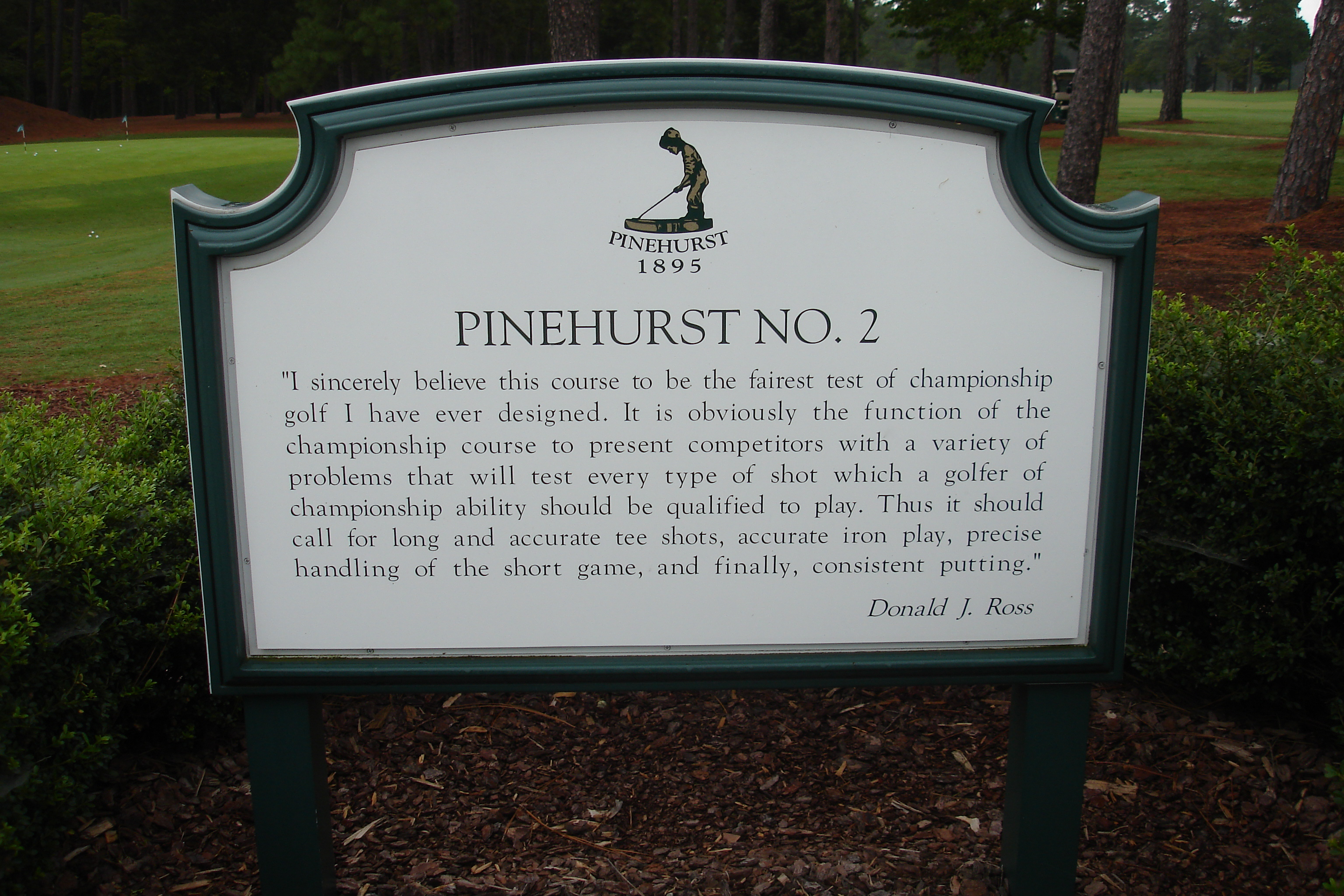 Pinehurst No. 2 sign.